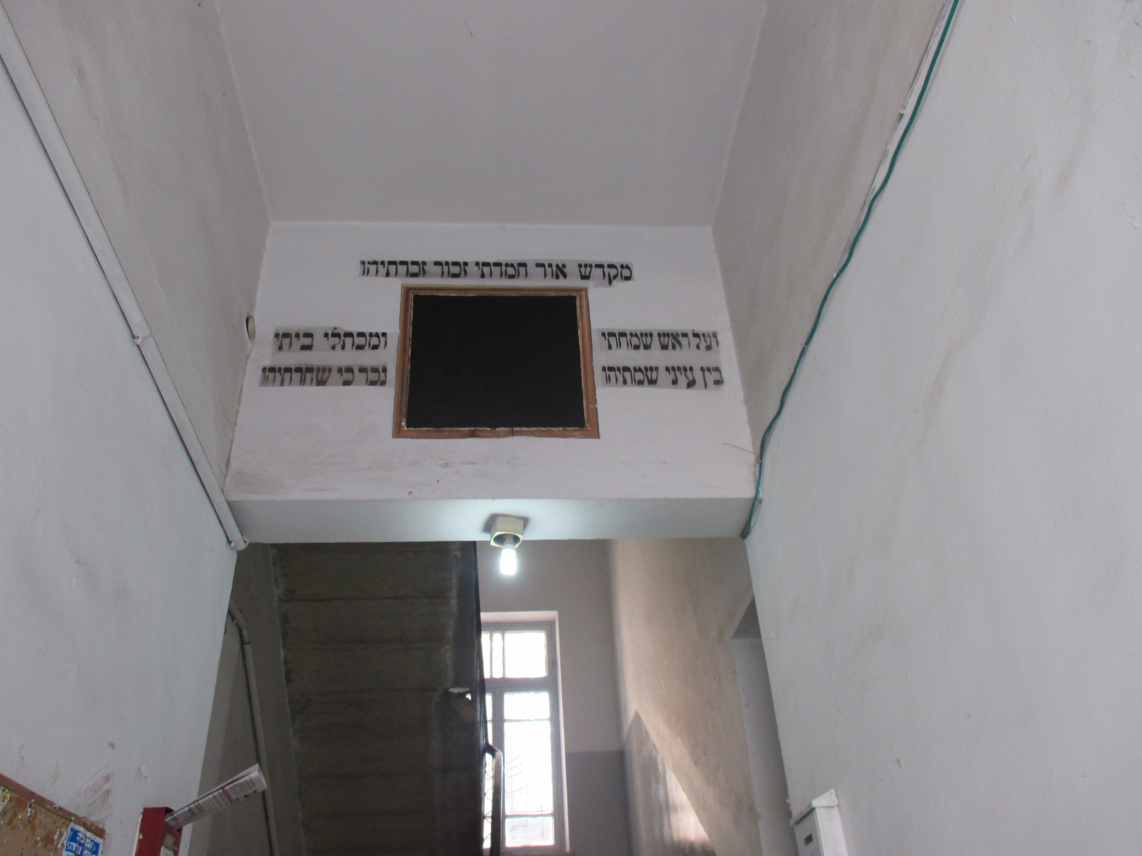 Jerusalem, Ruhama neighborhood, 20 David Yellin street (corner of Pines street), Camara family house